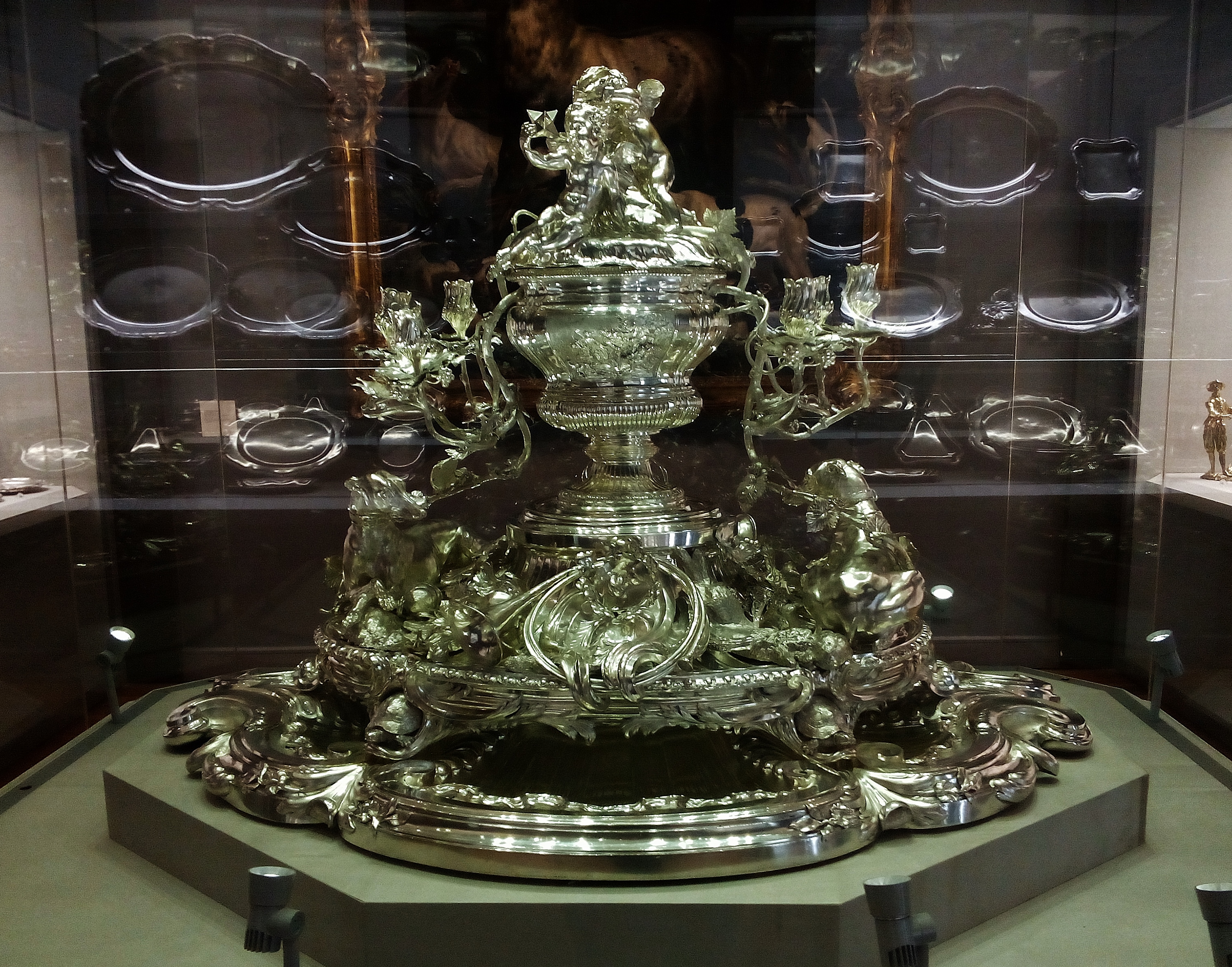 The centerpiece, part of the Germain Service (Baixela Germain) commissioned by King Joseph I of Portugal to François-Thomas Germain. Currently in the National Museum of Ancient Art, Lisbon, Portugal.